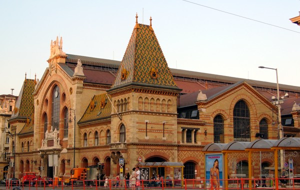 Grand Market Hall in Budapest, Hungary